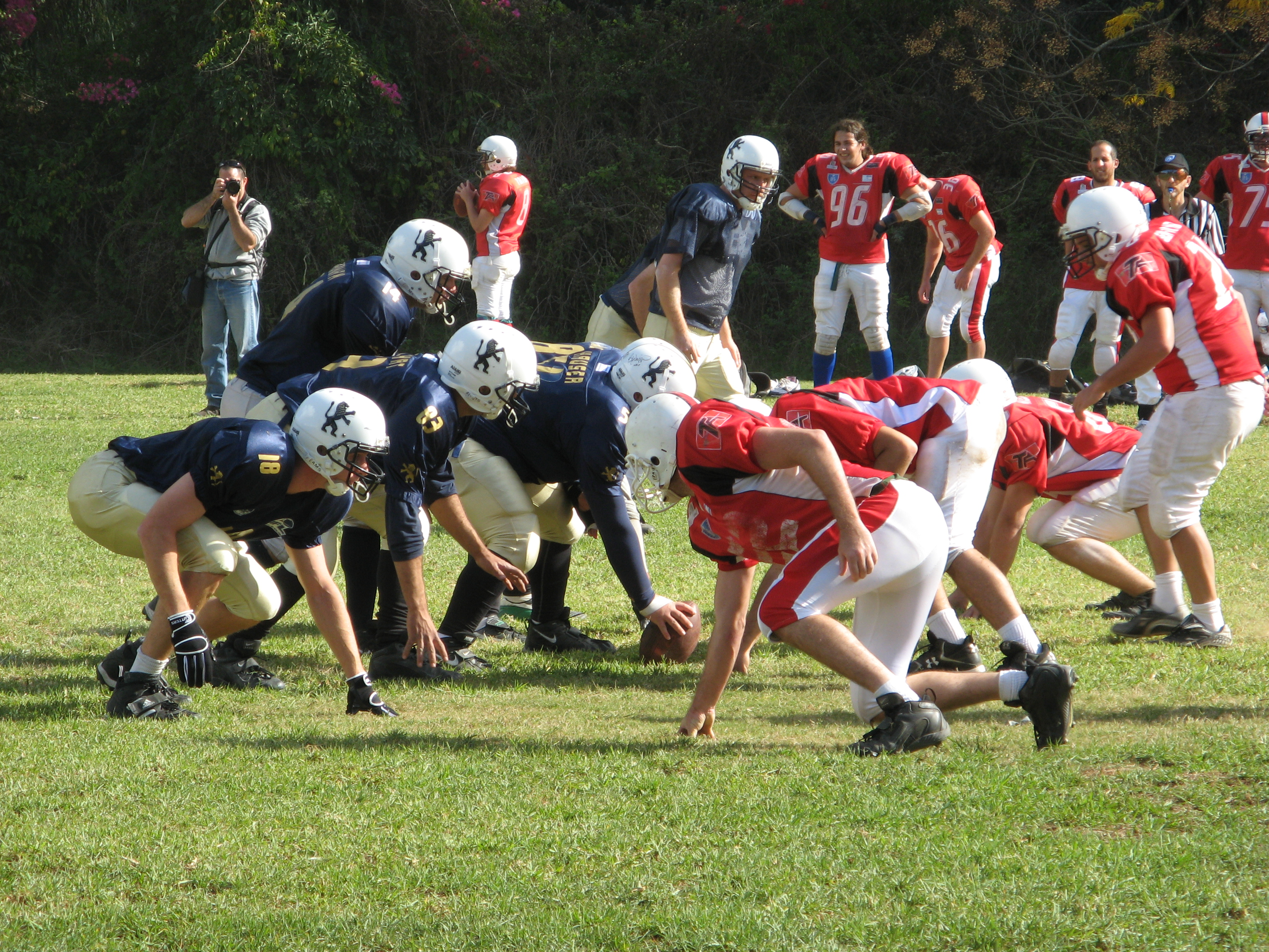 Tel Aviv "Mike's Place" Sabres (red) and Jerusalem "Big Blue Travel" Lions (blue) during an IFL game